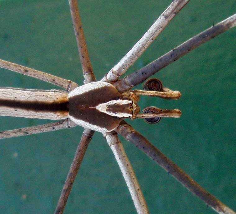 Deinopis subrufa From above